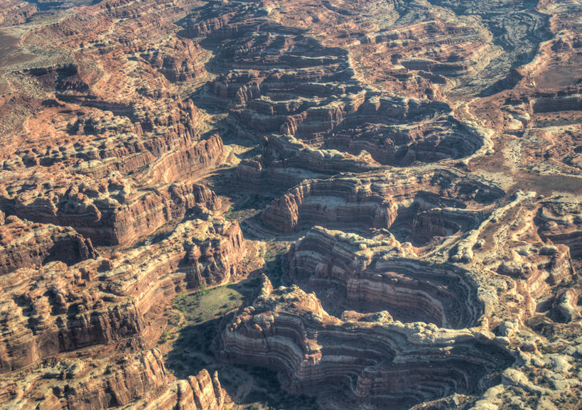 Canyonlands - The Maze Aerial, Aerial photograph of the Maze District in Canyonlands National Park, Utah